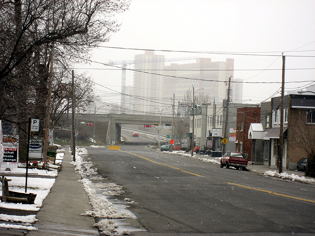 I took this photo on April 8th, 2007